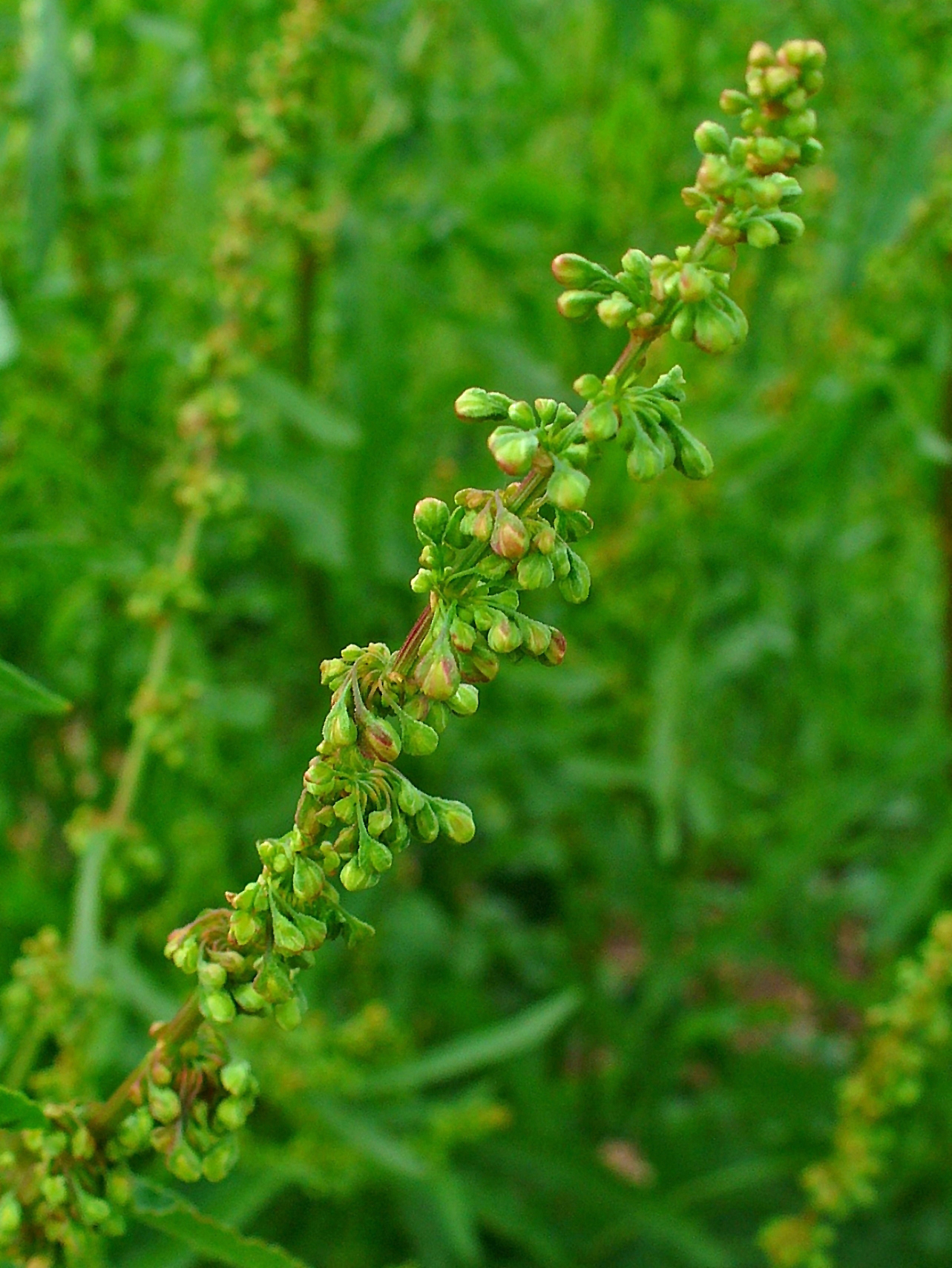 Rumex crispus, Polygonaceae, Curly Dock, Yellow Dock, Sour Dock, Narrow Dock, inflorescence.